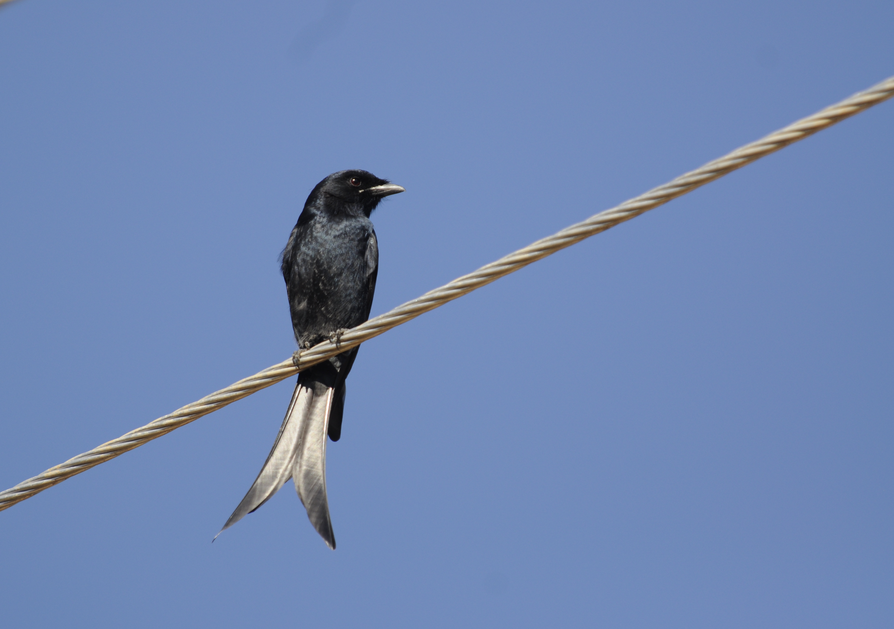 Black Drongo in Chamarajanagar district, Karnataka, India